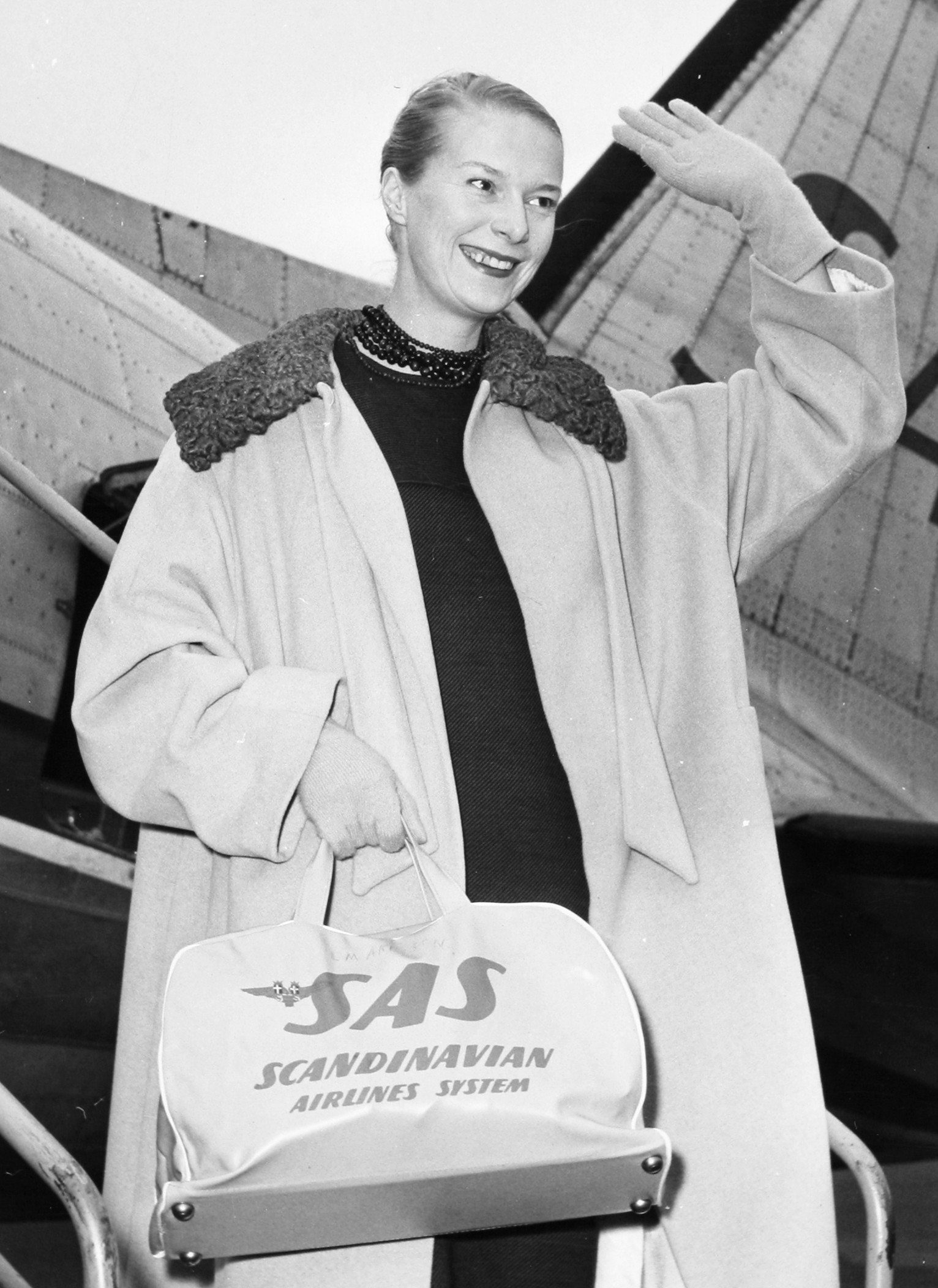 Katja Geiger, also known as Katja of Sweden, at Kastrup Airport, Copenhagen